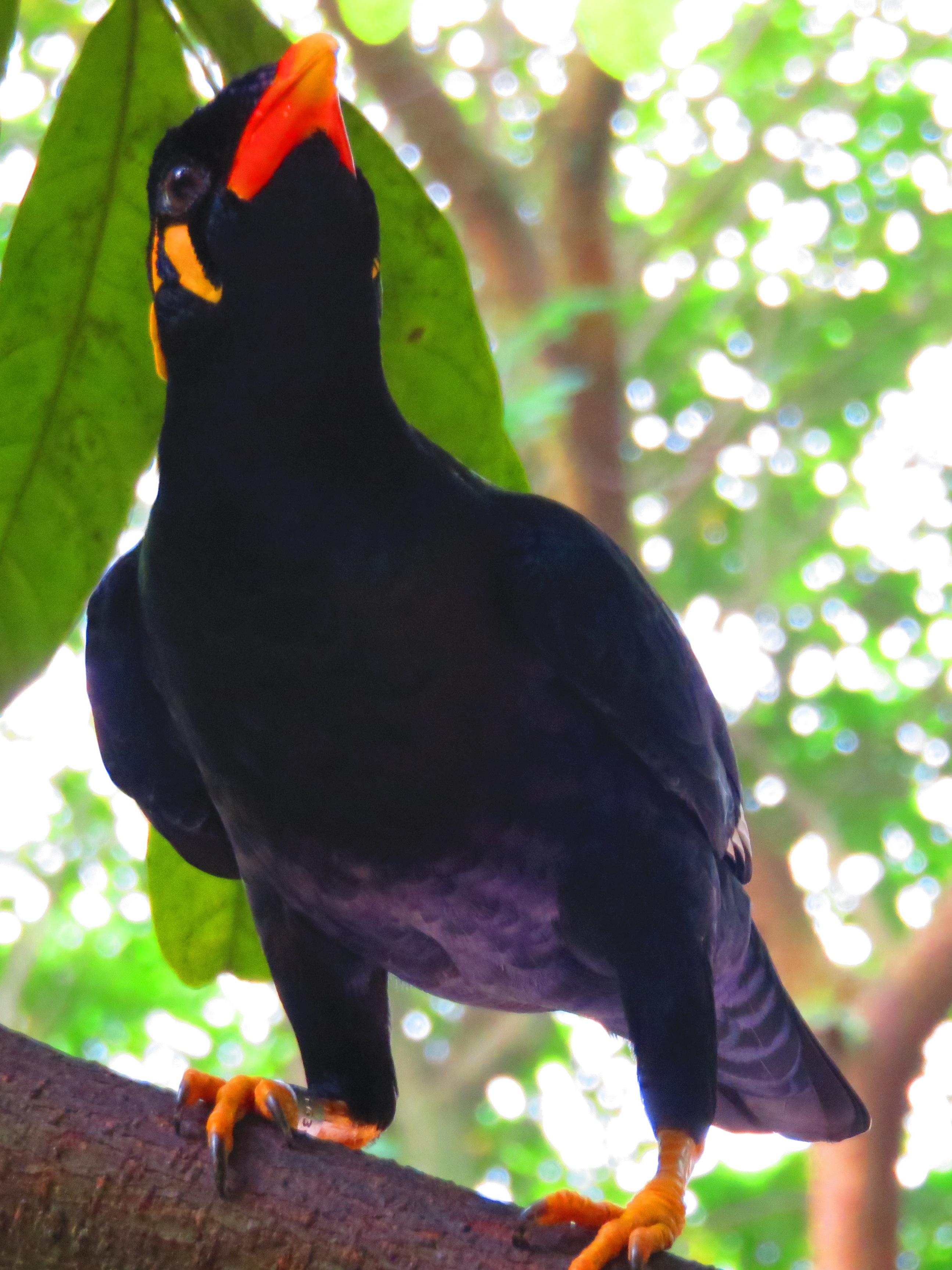 Common hill myna (Gracula religiosa robusta), Jurong Bird Park, Singapore